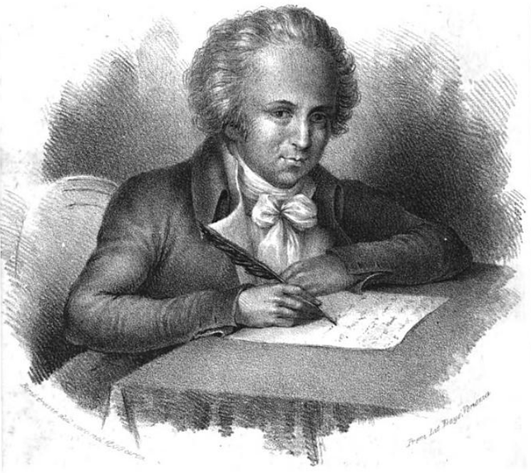 Portrait of Venetian poet Antonio Lamberti (1740-1811)